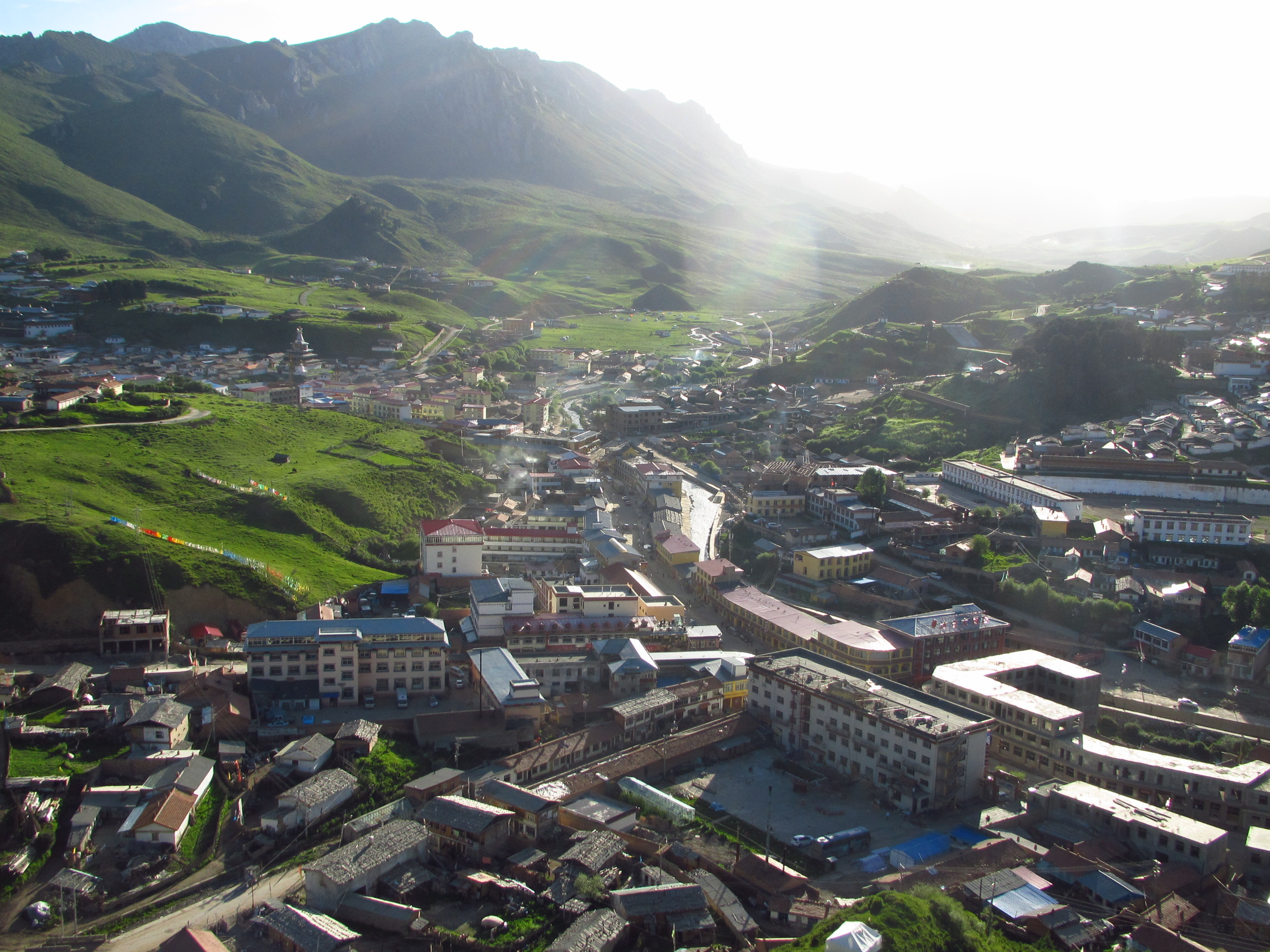 View of Langmusi Town from the east